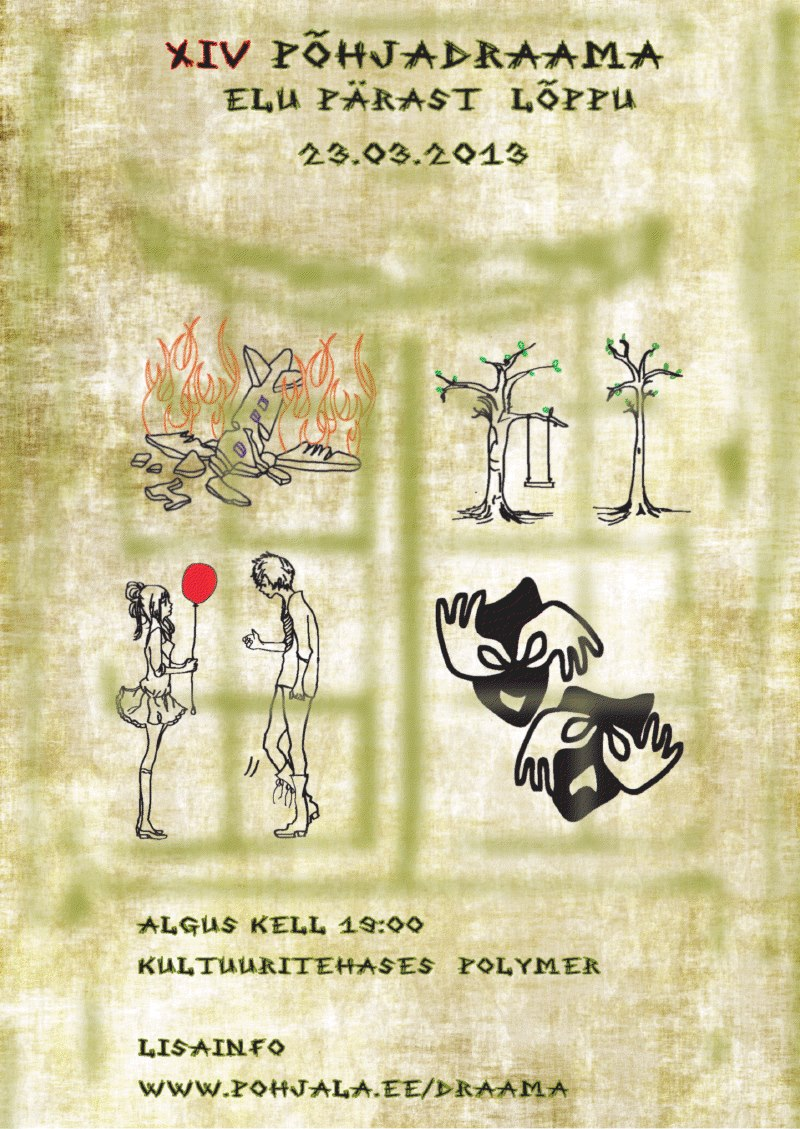 XIV Põhjadraama plakat